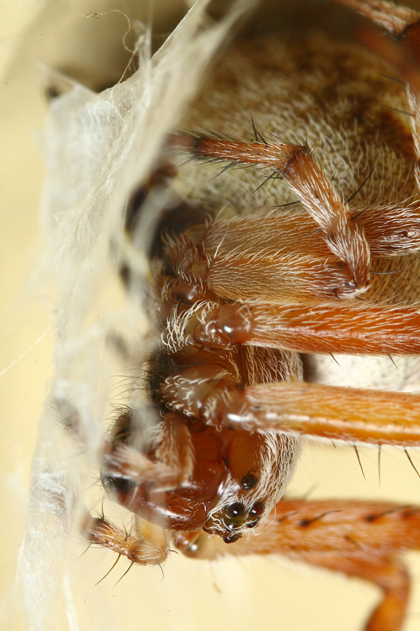 Labyrinth Orb-weaver photographed using a Canon EOS 50D with Canon 100mm macro lens and 150mm extension tube at ISO 250, F10, 1/5000sec, and Canon 580ex speedlite.